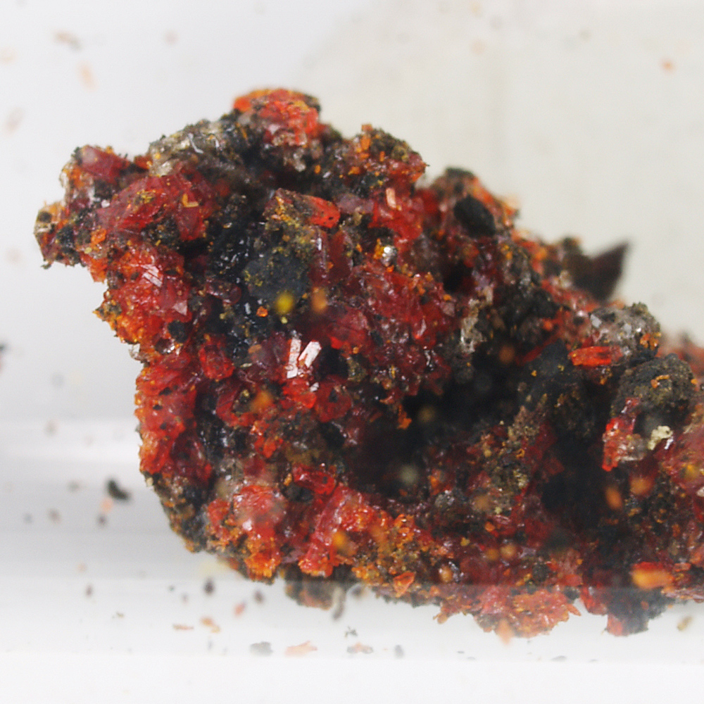 Locality: Kopeisk, Chelyabinsk Oblast', Urals Region, Russian Federation Size: 0.8 × 0.6 × 0.6 cm Description: Kremersite is a very rare complex halide, very deliquescent, that is why it is protected sealed in a glass capsule. Visible crystals, transparent and with an intense red color. From the coal mine Nr. 50 of this Russian locality known for more than 40 new species formed on spontaneous burning coal dumps and are known to rage for many years or decades, forming many rare high-temperature minerals.